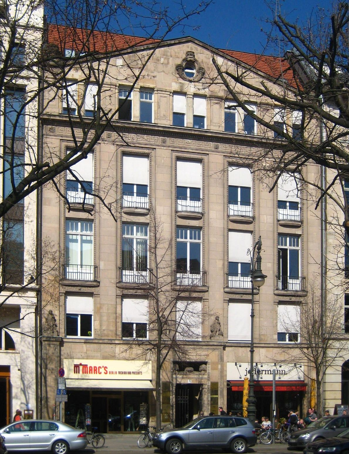 Commercial building, Unter den Linden No. 12, in Berlin-Mitte. It was built from 1908 to 1910 to a design by the architect Max Grünfeld. The building has been designated as a historic landmark.